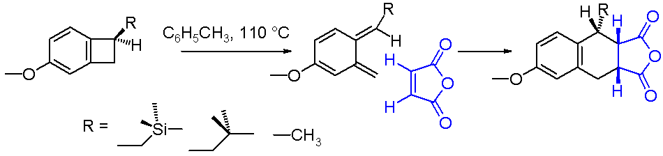 Electrocyclic reaction Matsuya 2006